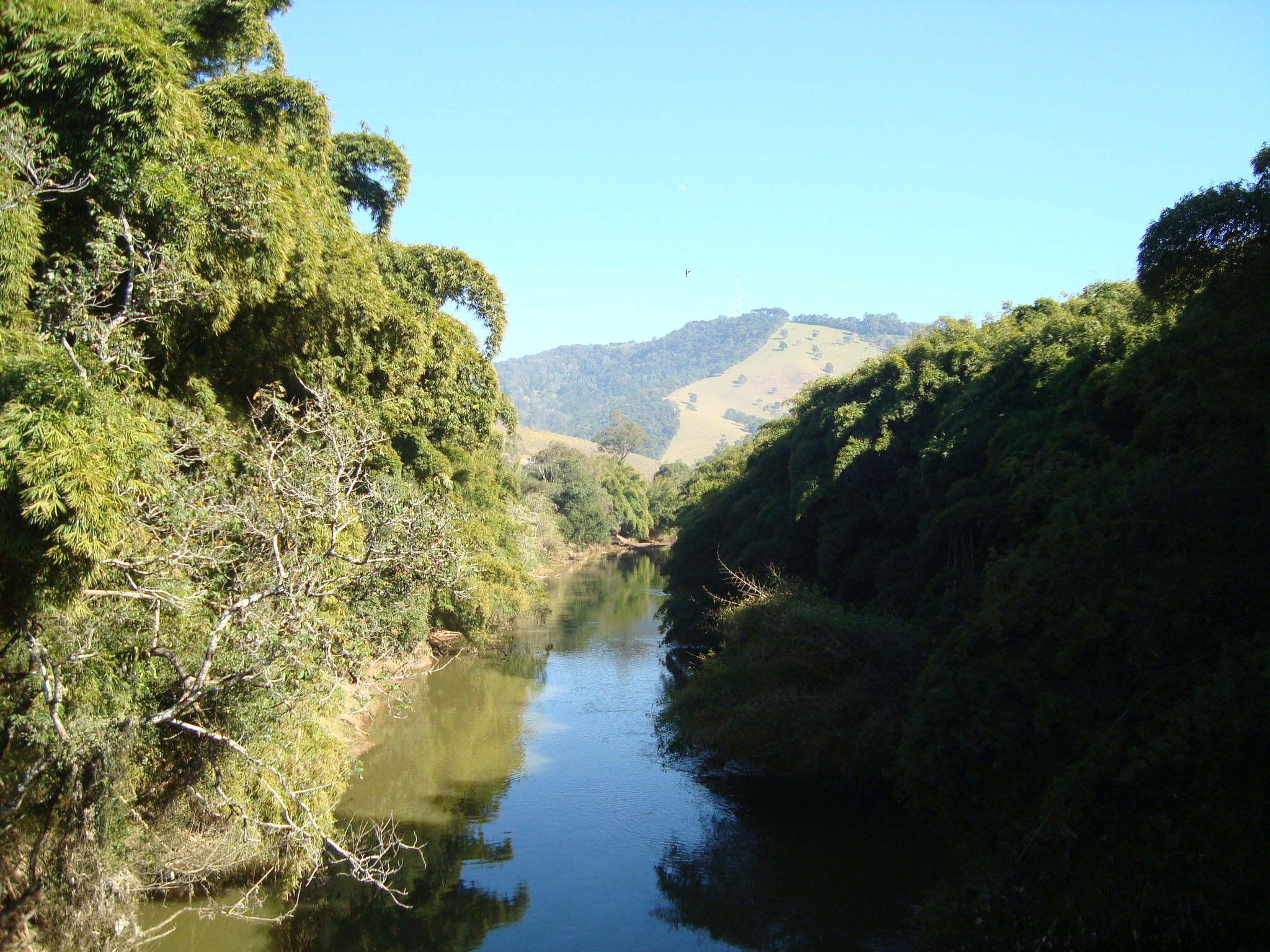 Verde River in Sao Lourenco, Minas Gerais, Brazil